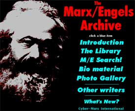 Navigate part of MEA in September of 1996.